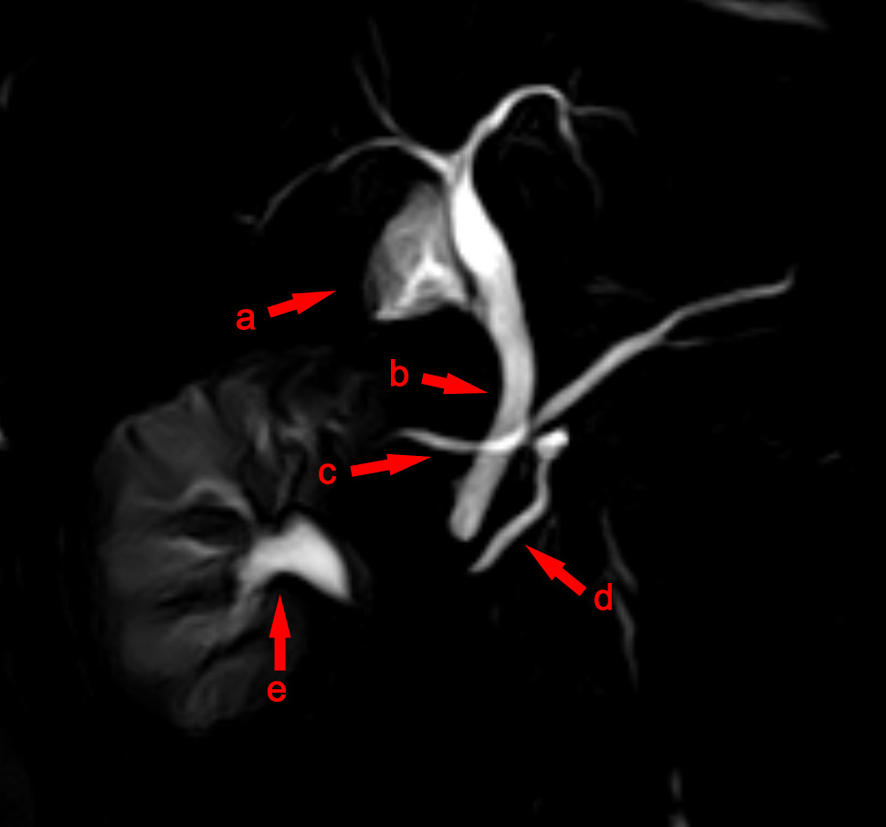 Magnetic resonance cholangiopancreatography of a pancreatic divisum: (a) gall bladder, (b) bile duct crossing the (c) long duct of Santorini, (d) a short pancreatic duct together with the bile duct on the major duodenal papilla, (e) imaged with renal collecting system.